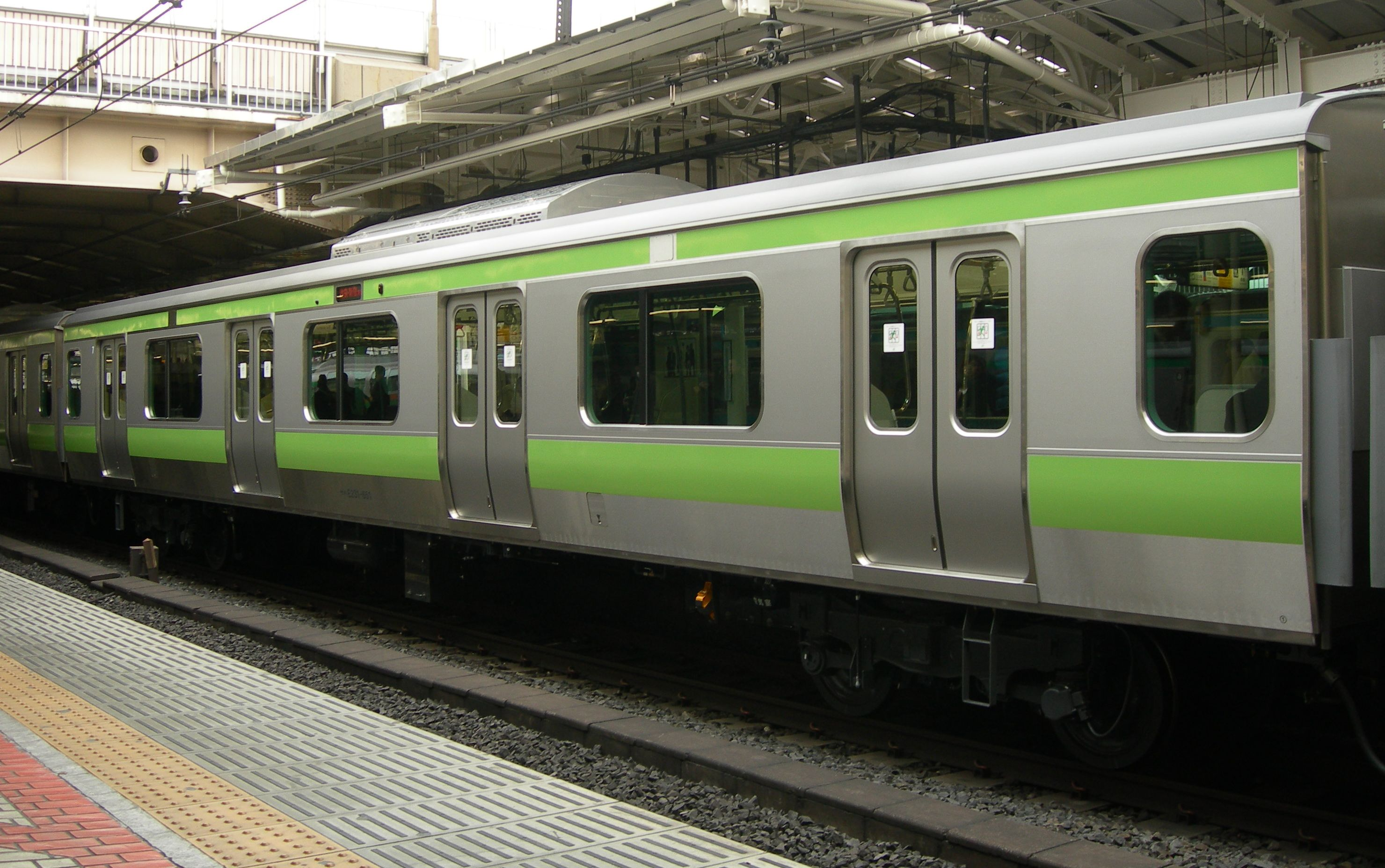 JR East E231-500 series SaHa E231-651 (4-Door Replacement Car of 6-Door Original), taken at Ueno Station